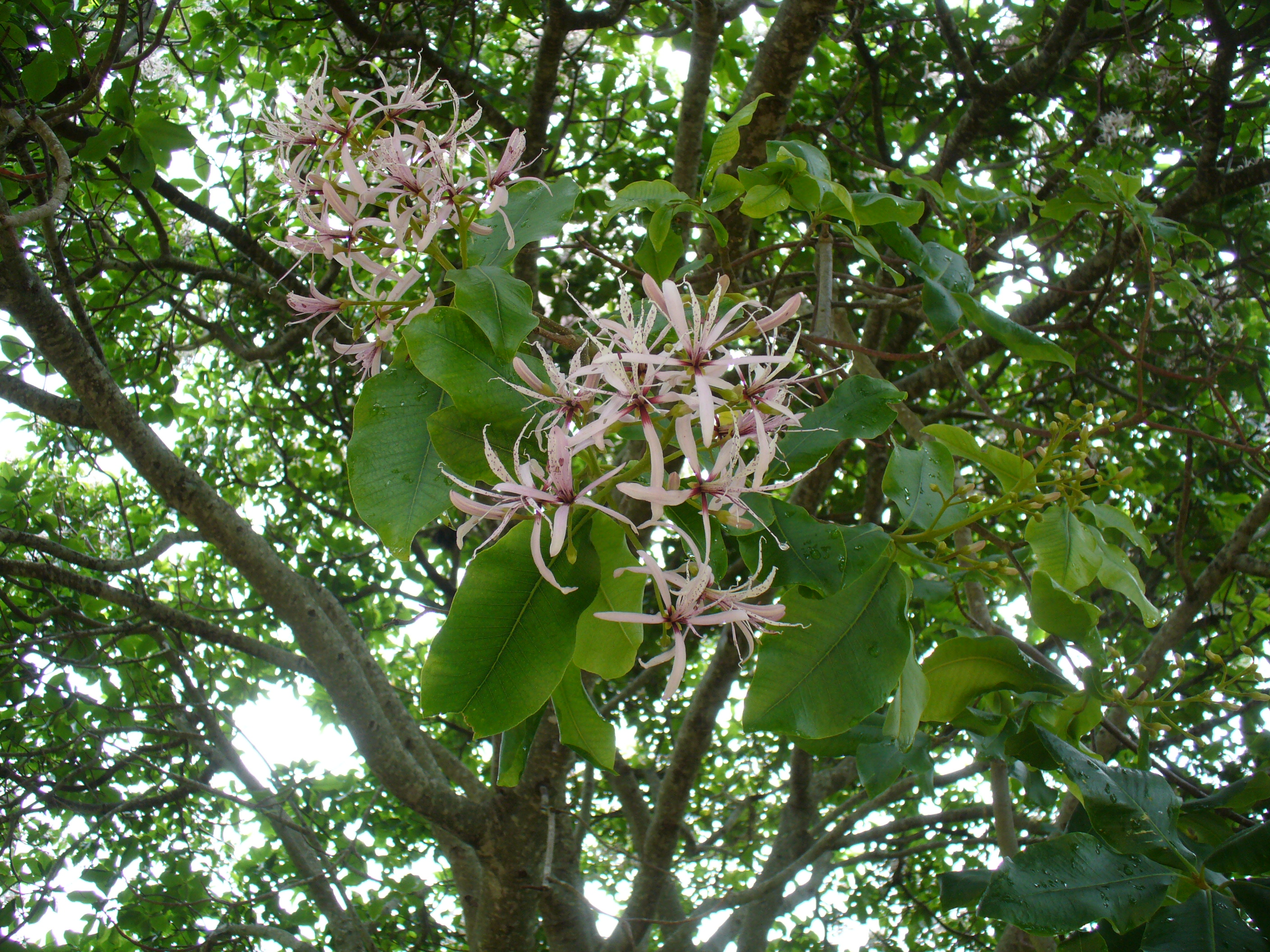 Kirstenbosch Gardens Cape Town